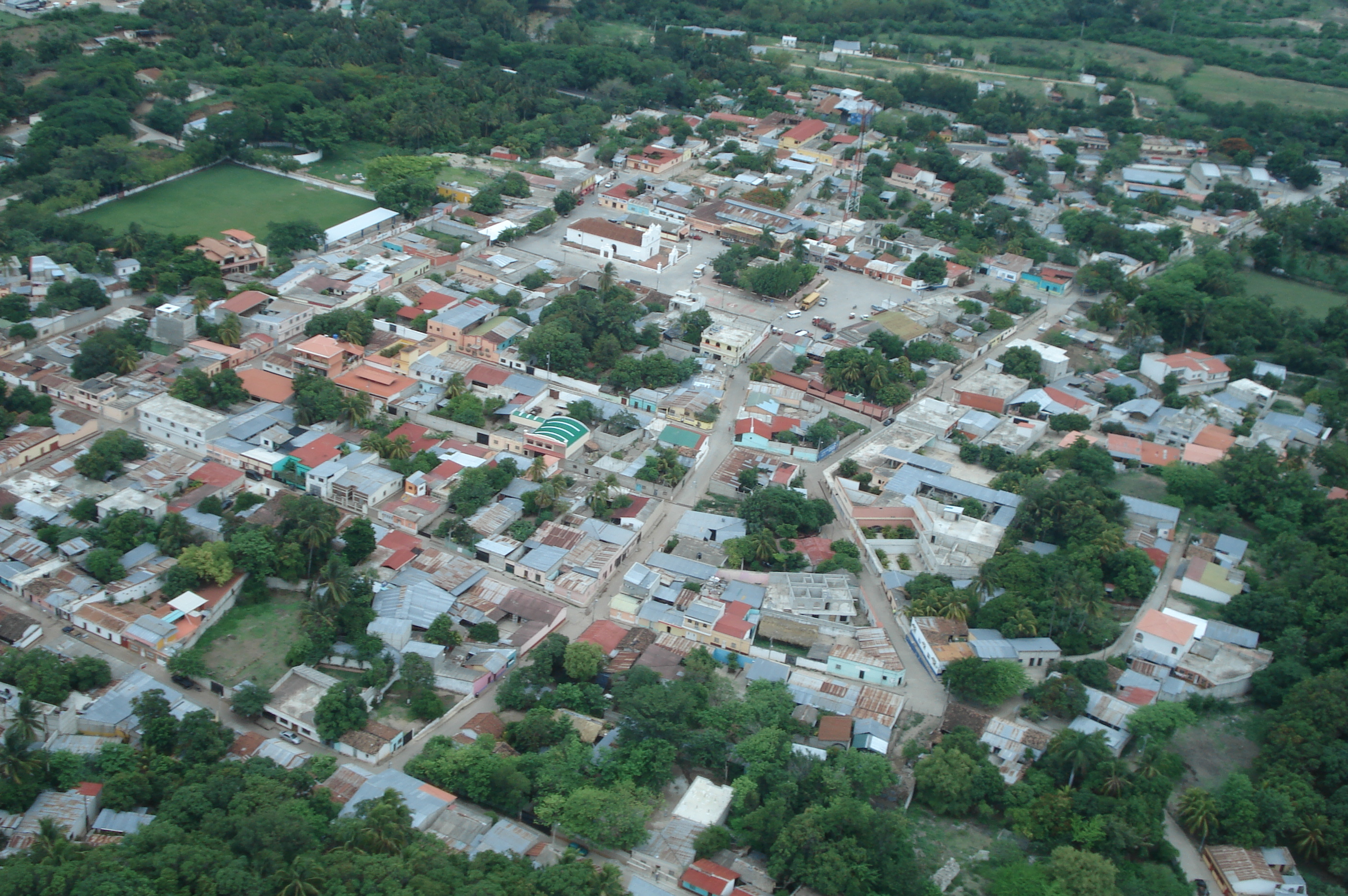 Casco Urbano de Río Hondo